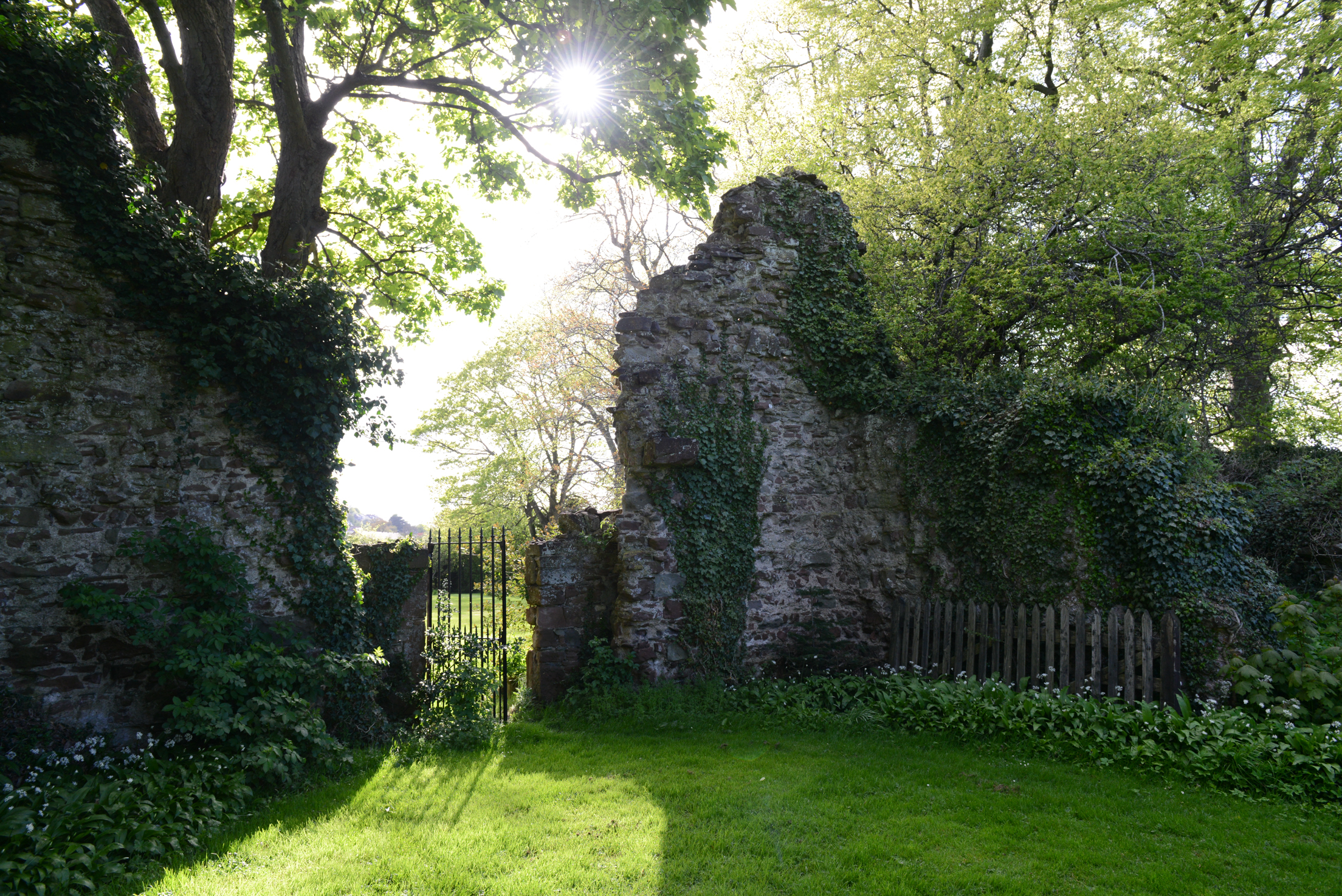 The Abbey ruins today